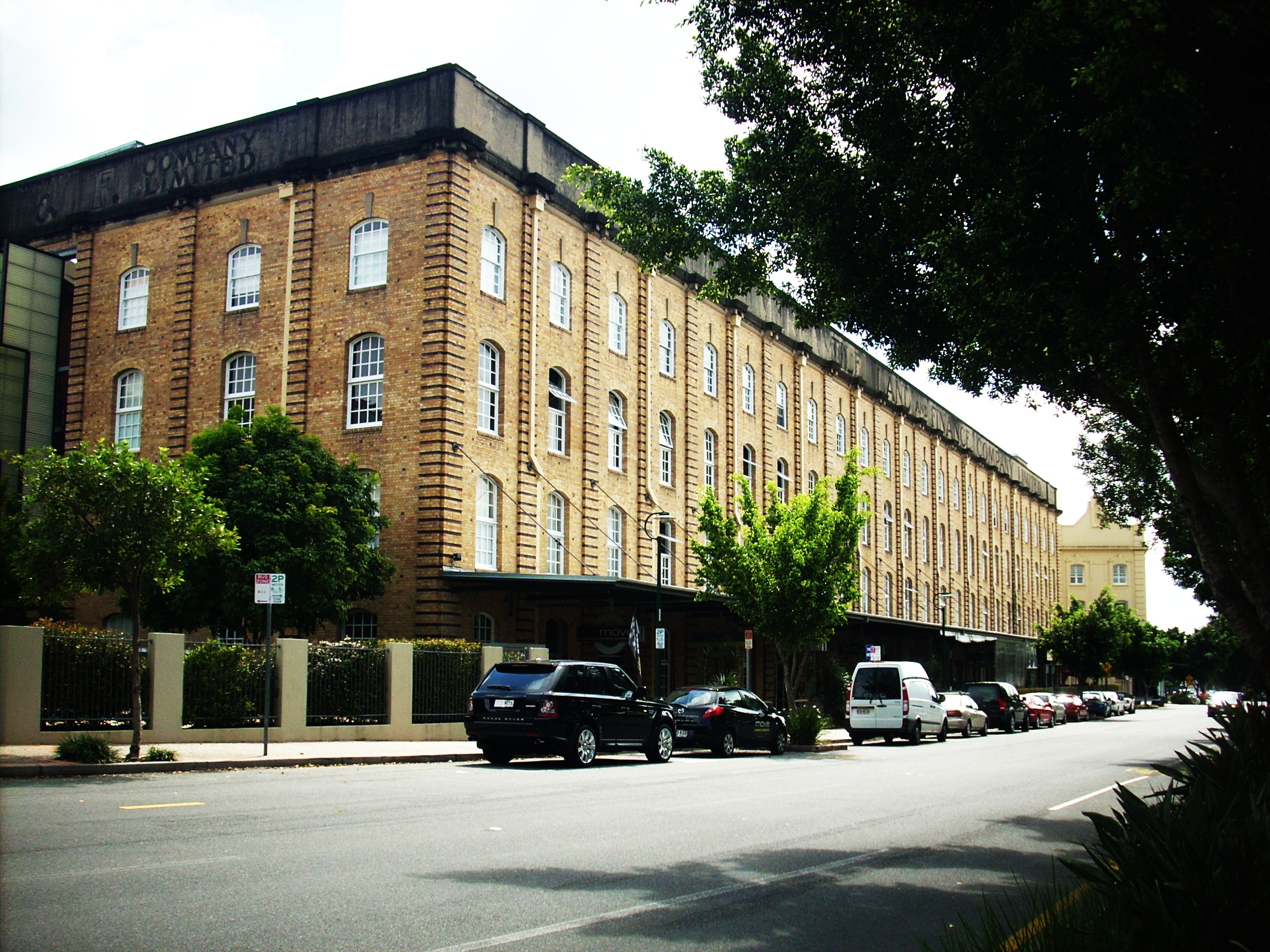 Wool Store, Teneriffe Architecture